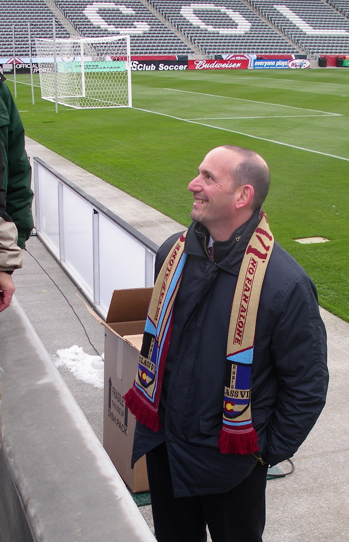 Don Garber, MLS Commissioner, speaks to fans. Taken on day which was First Kick for the MLS season. Don spoke with supporters before the opening game of the 2007 season, which occurred at The Dick in Commerce City, Colorado. This should be included in the article on Don Garber.